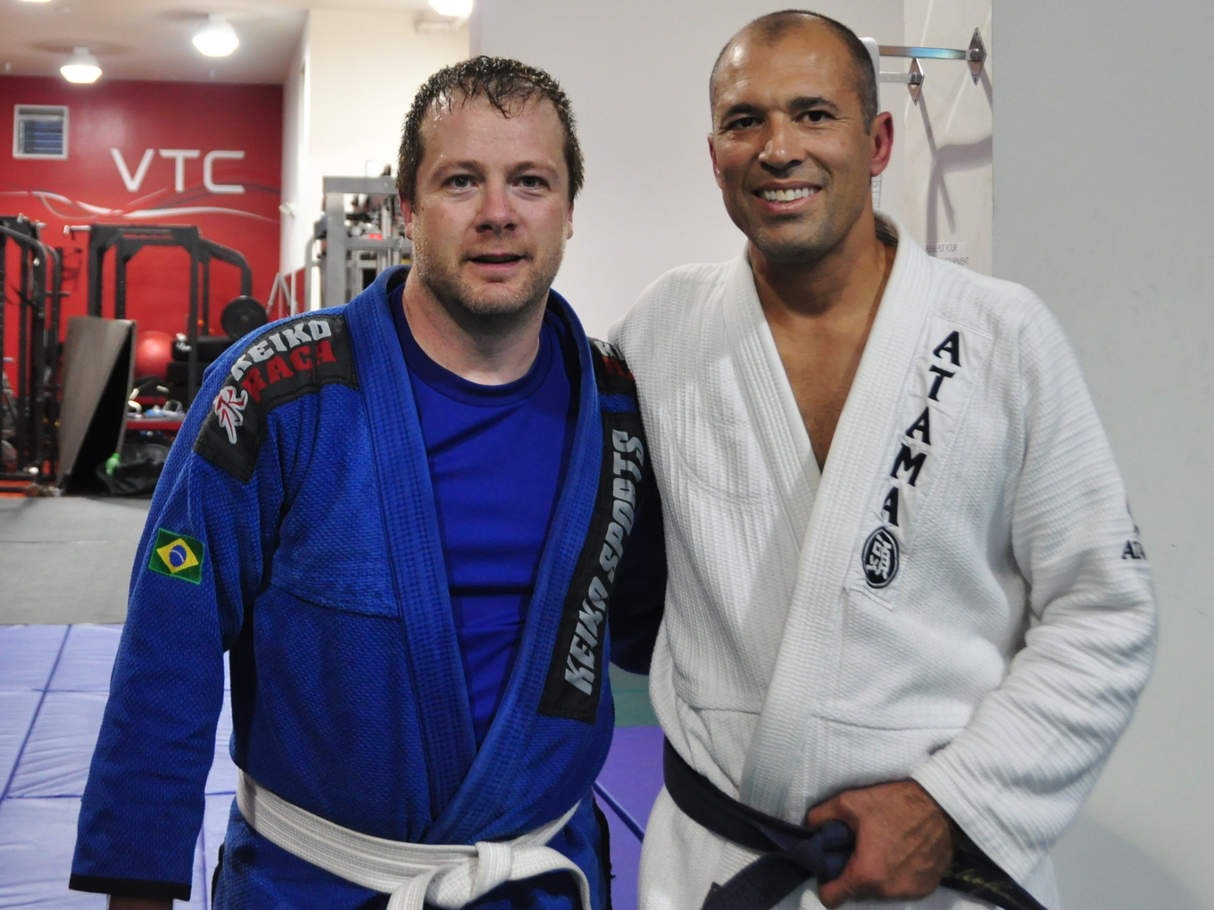 Royce Gracie takes time to pose for a picture with a BJJ practitioner during his seminar.